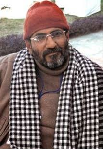 Image of India's famous playwright and director Dr. Arjun Deo Charan